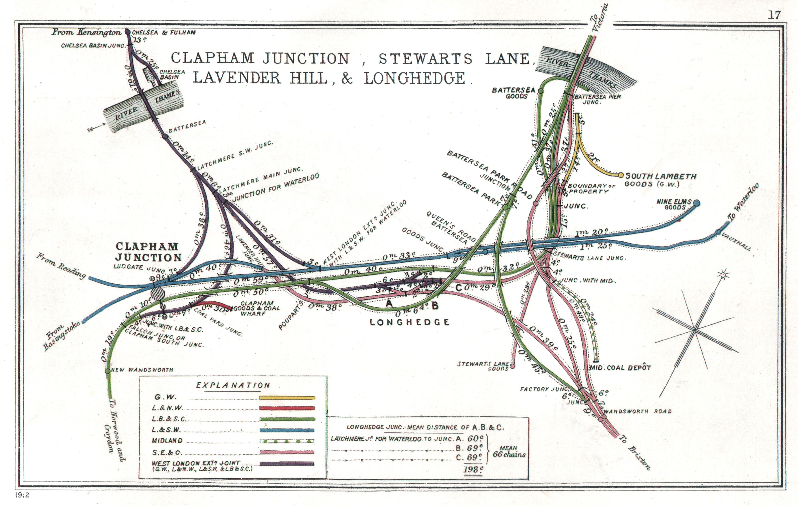 Pre Grouping railway junction around Clapham Junction, Stewarts Lane, Lavender Hill & Longhedge